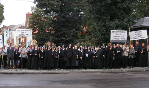 The Ukrainian True Greek Catholic Church Ukraine